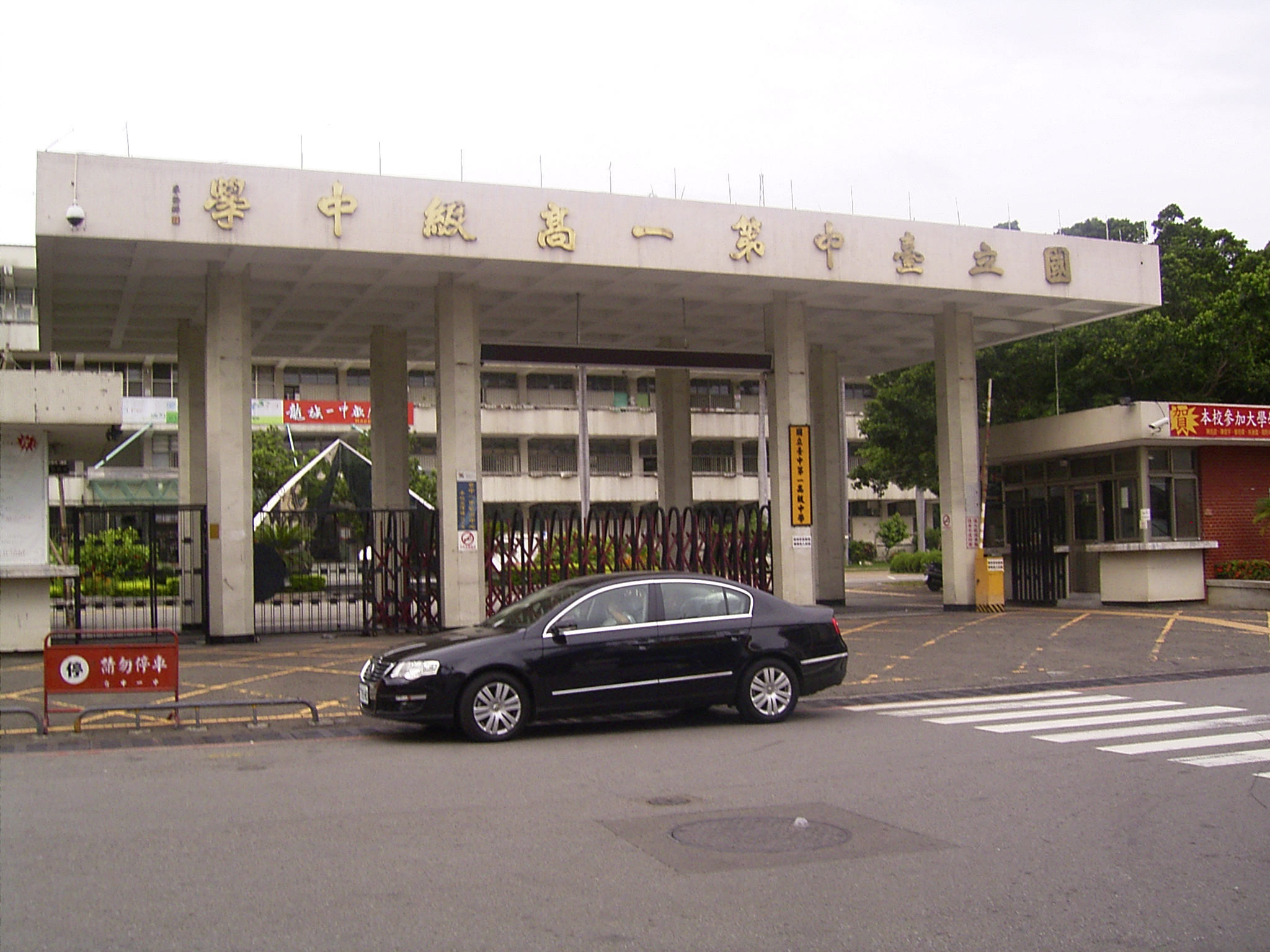 The main gate of Taichung First Senior High School.